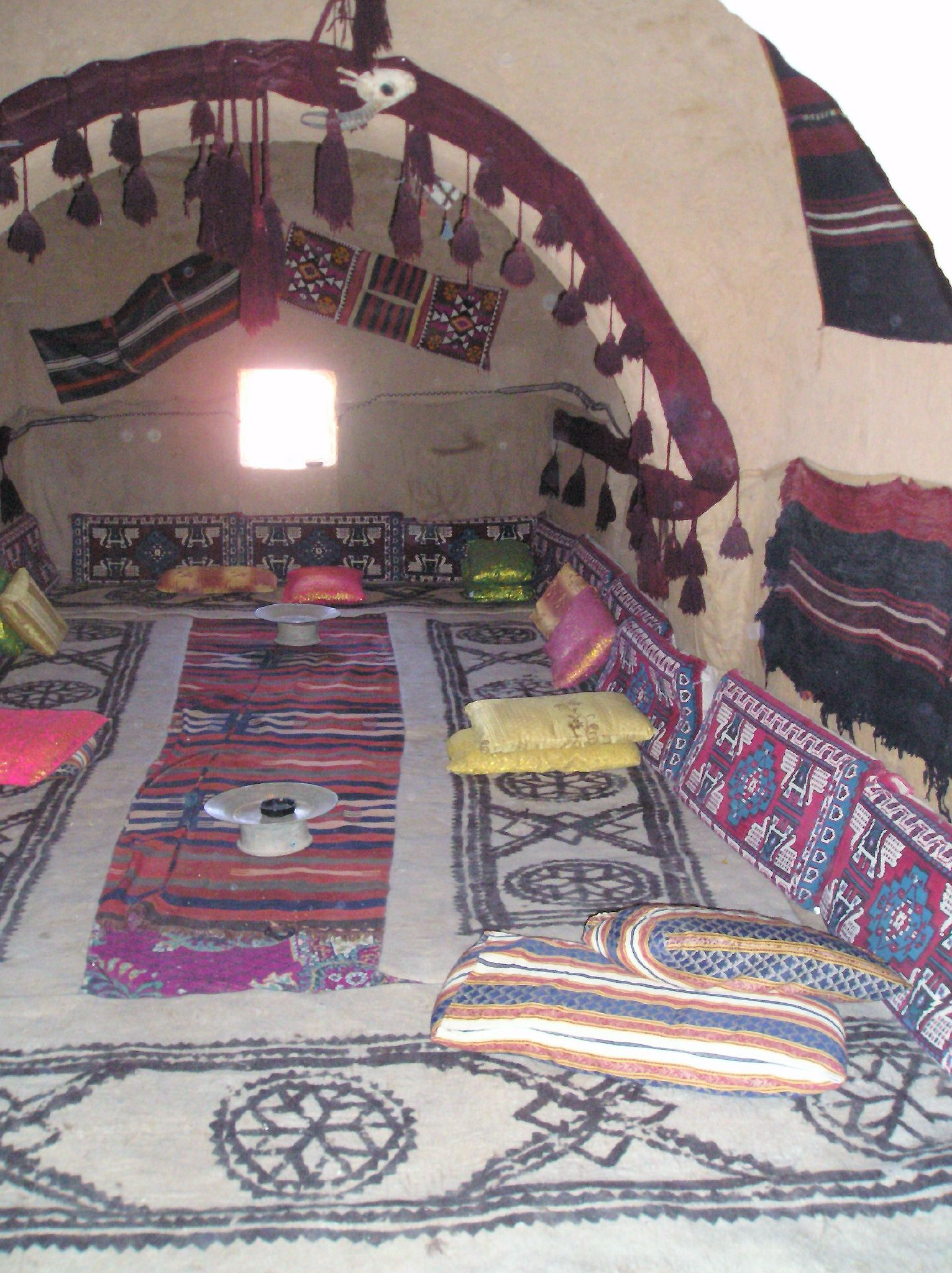 Harran house interior Harran, Şanlıurfa